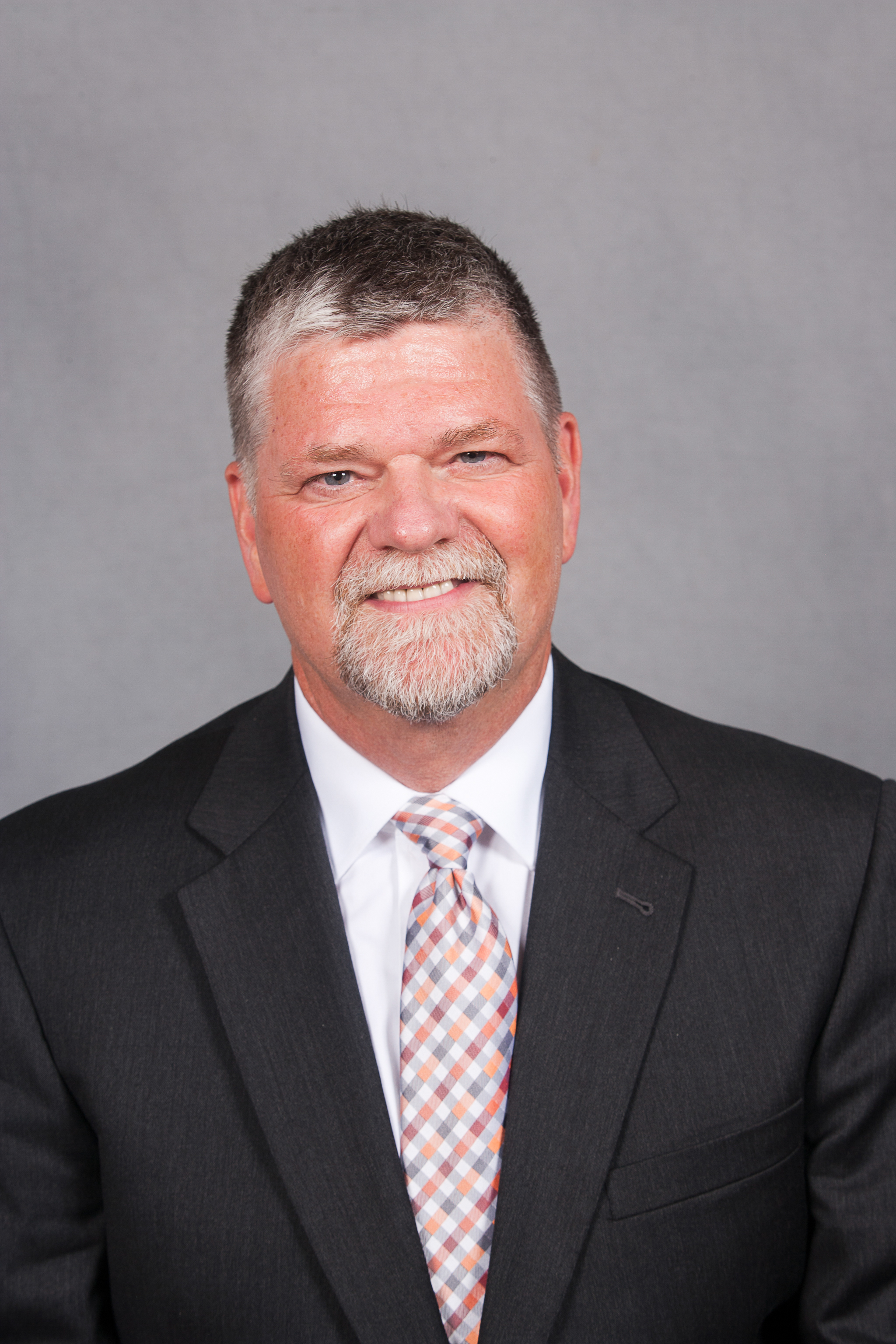 Dr. Gerald P. Mallon